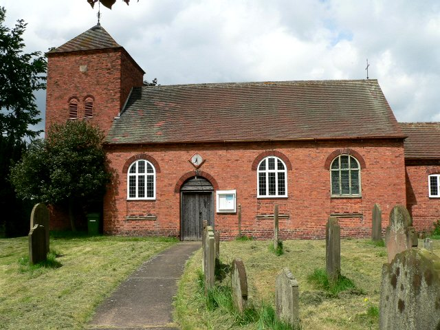 St Edmund's parish church, Seaton Ross, East Riding of Yorkshire, England, seen from the south.